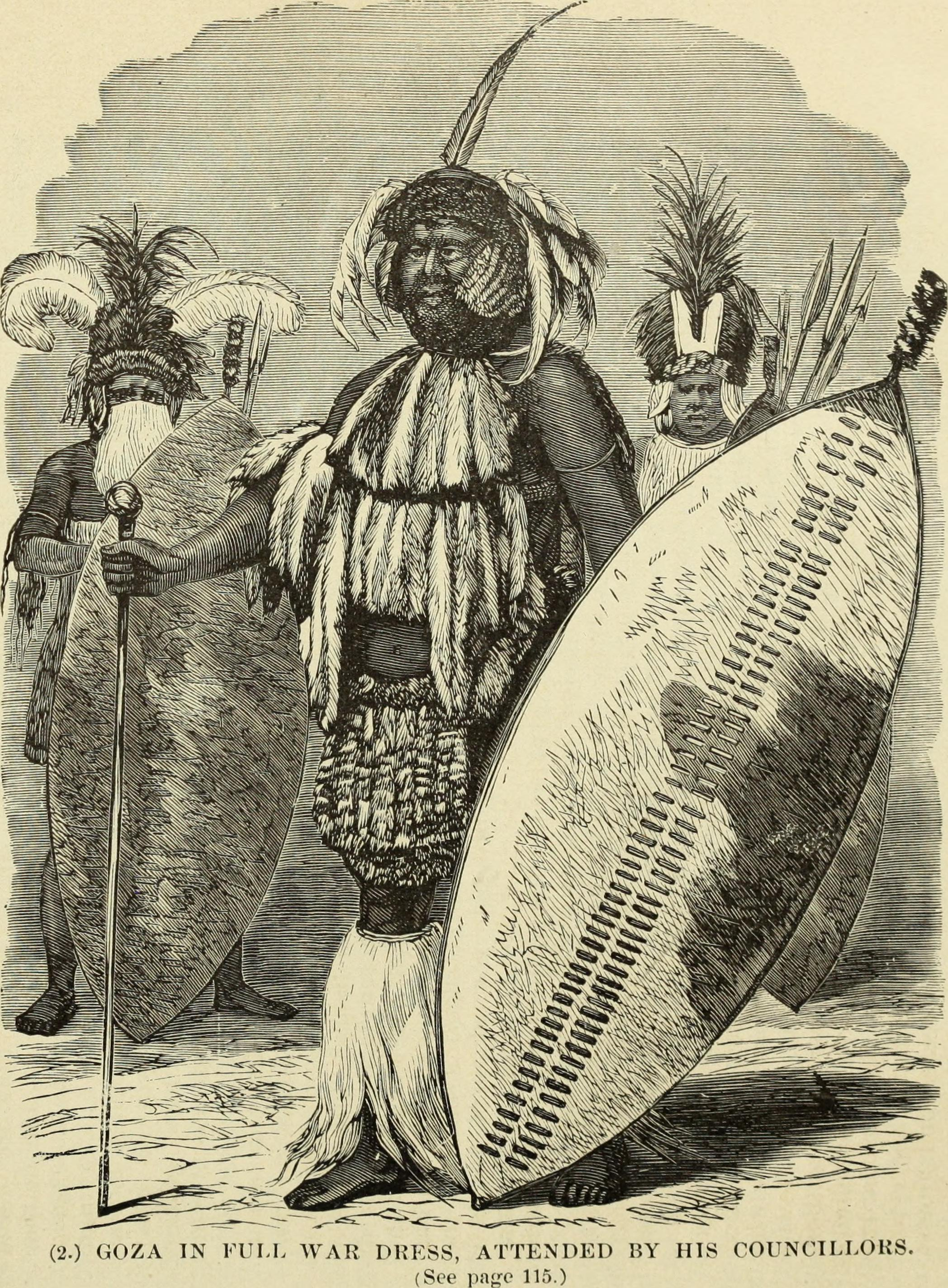 Title: The uncivilized races of men in all countries of the world; being a comprehensive account of their manners and customs, and of their physical, social, mental, moral and religious characteristics. By Rev. J. G. Wood... With new designs by Angas, Danby, Wolf, Zwecker... 1871 Year: 1877 (1870s) Authors: Wood, John George, 1827-1889 Subjects: Ethnology. Manners and customs. Savages Publisher: J. B. Burr and company Text Appearing Before Image: ' Text Appearing After Image: (117) THE EEVIEW AFTER A BATTLE. 119 diiferent regiments, a peculiar headdress isassigned to each regiment. On these head-dresses the natives seem to have exercisedall their ingenuity. The wildest fancywould hardly conceive the strange shapesthat a Kaffir soldier can make with feathers,and fur, and raw hide. Any kind of featheris seized upon to do duty in a Kaffir soldiersheaddress, but the most valued plumage isthat of a roller, whose glittering dress ofblue green is worked up into large globulartufts, which are worn upon the back of thehead, and on the upper part of the forehead.Such an ornament as this is seldom if everseen upon the head of a simple warrior, asit is too valuable to be possessed by any buta chief of consideration. Panda is very fondof wearing this beautiful ornament on occa-sions of state, and sometimes wears two atonce, the one on the front of his head-ring,and the other attached to the crown of thehead. The raw hide is stripped of its fur bybein;^ rolled up and bu